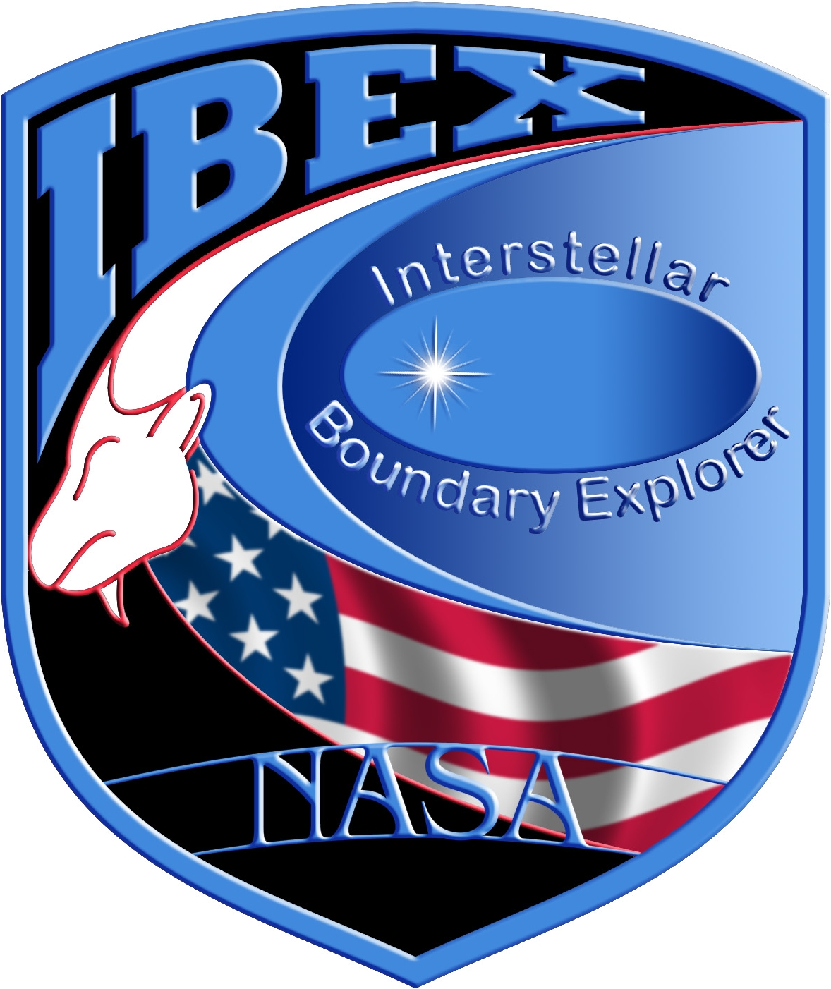 New official logo for NASA's Interstellar Boundary Explorer (IBEX) Explorer-class mission.